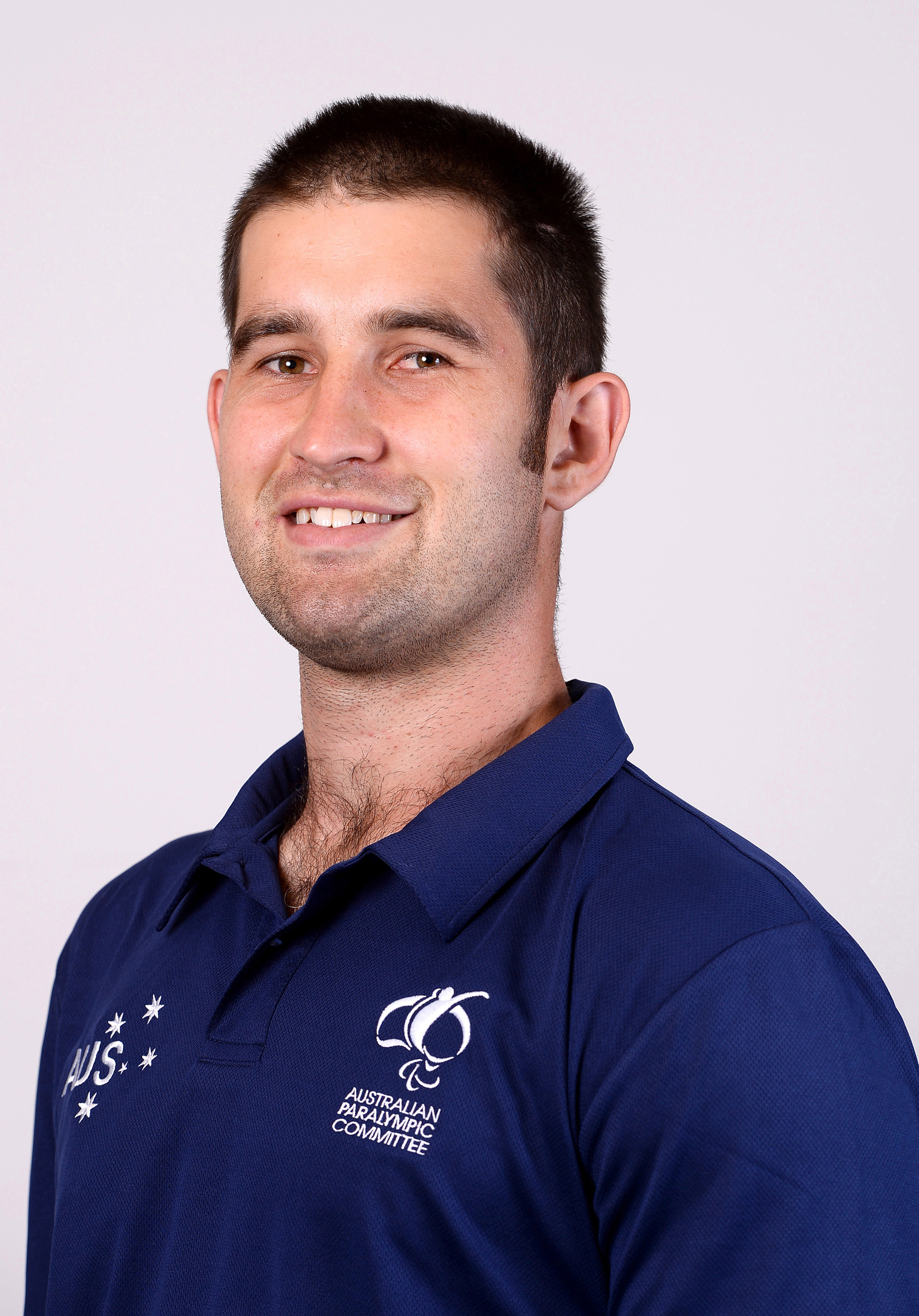 Portrait photograph of Guy Henly taken at team processing session for shadow members of 2016 Australian Paralympic team